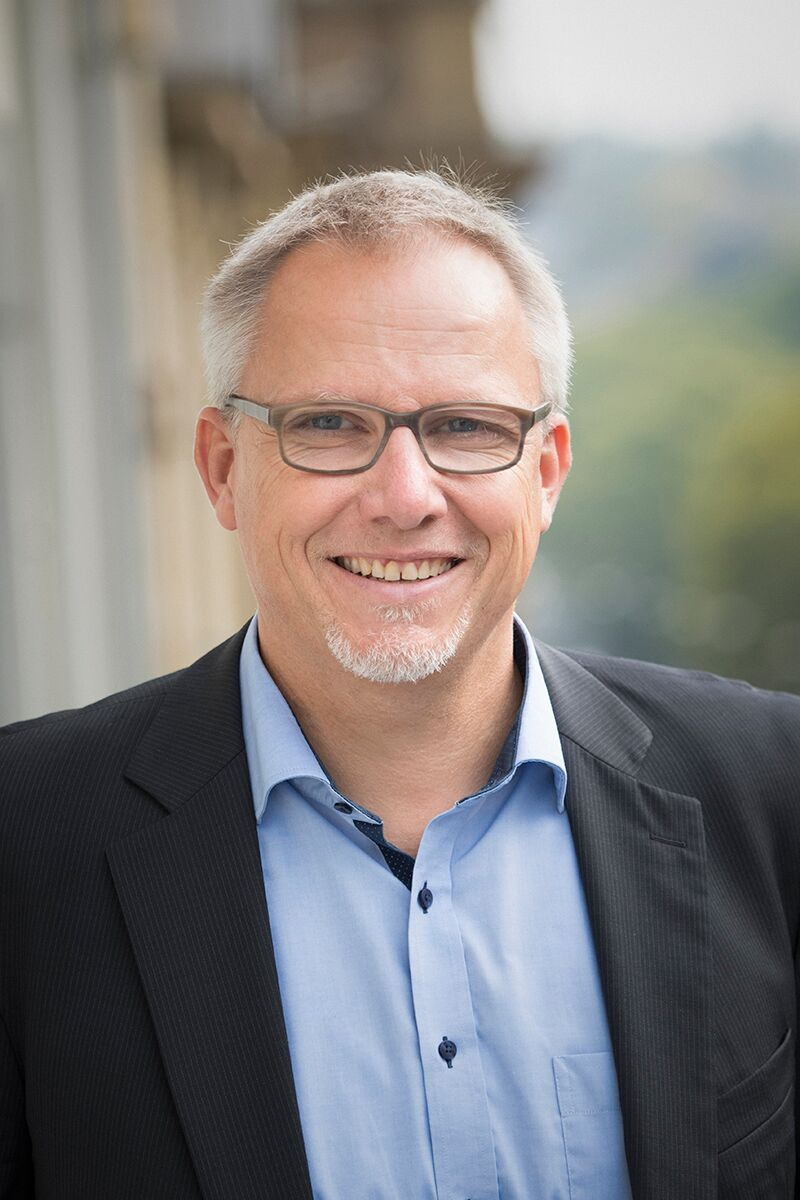 New picture